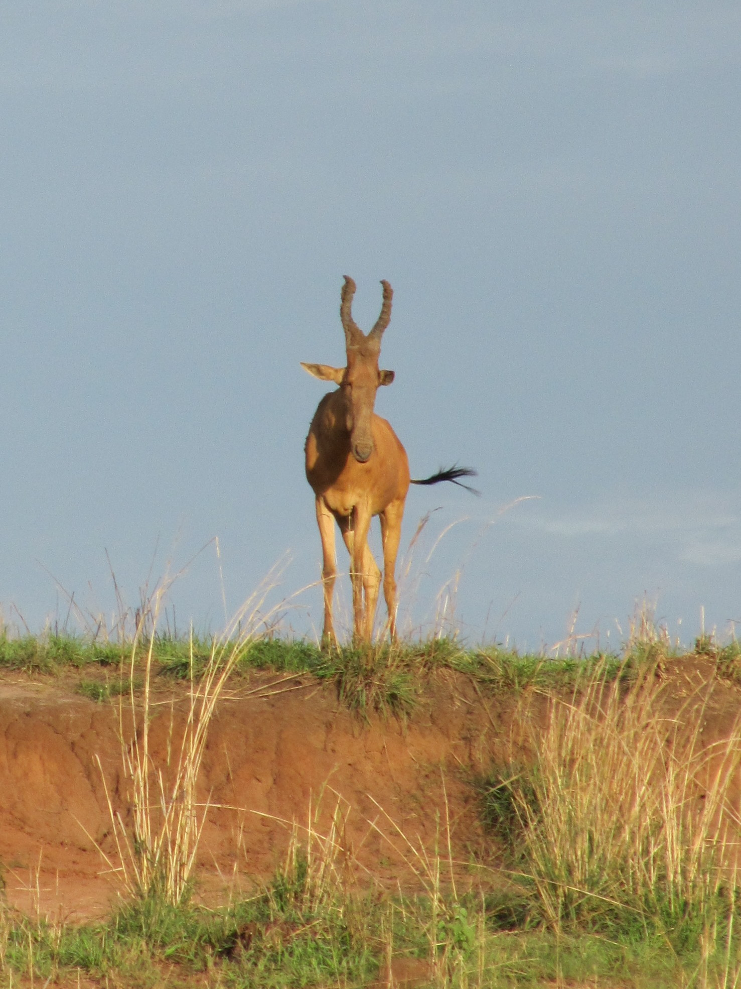 Jackson's Hartebeest in Murchison falls National Park